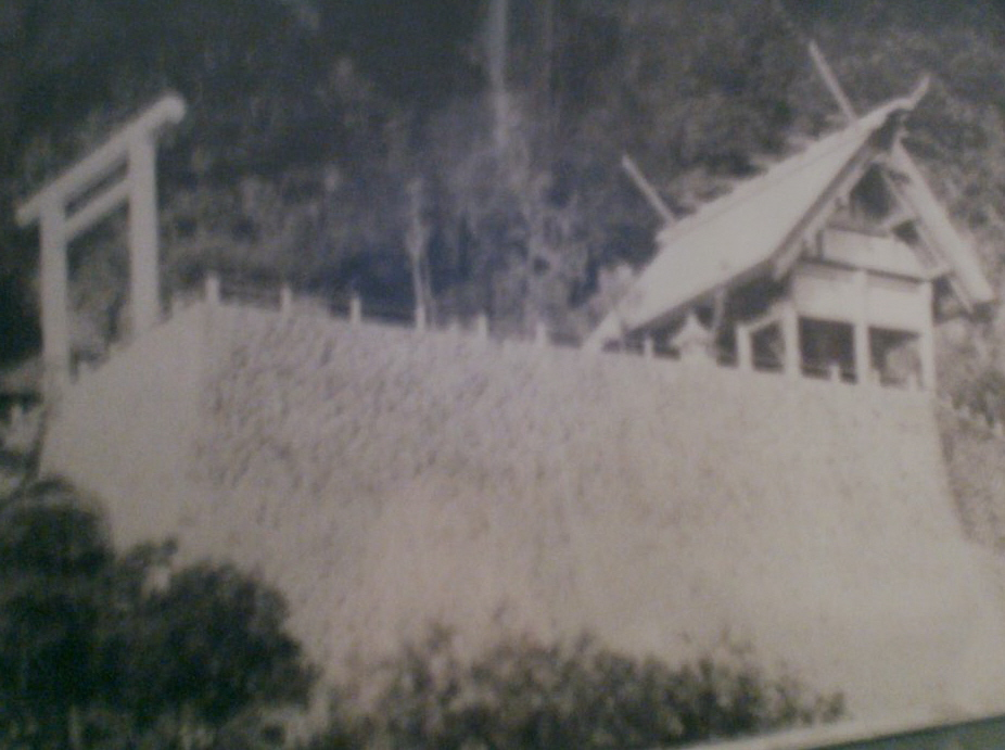 Ogon Shinto shrines , Taiwan